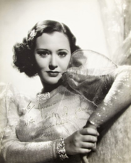 Chili Bouchier, publicity photo